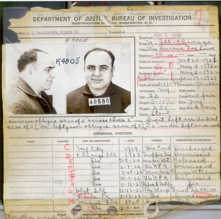 Al Capone's criminal record from U.S. Federal Penitentiary in Atlanta, Georgia